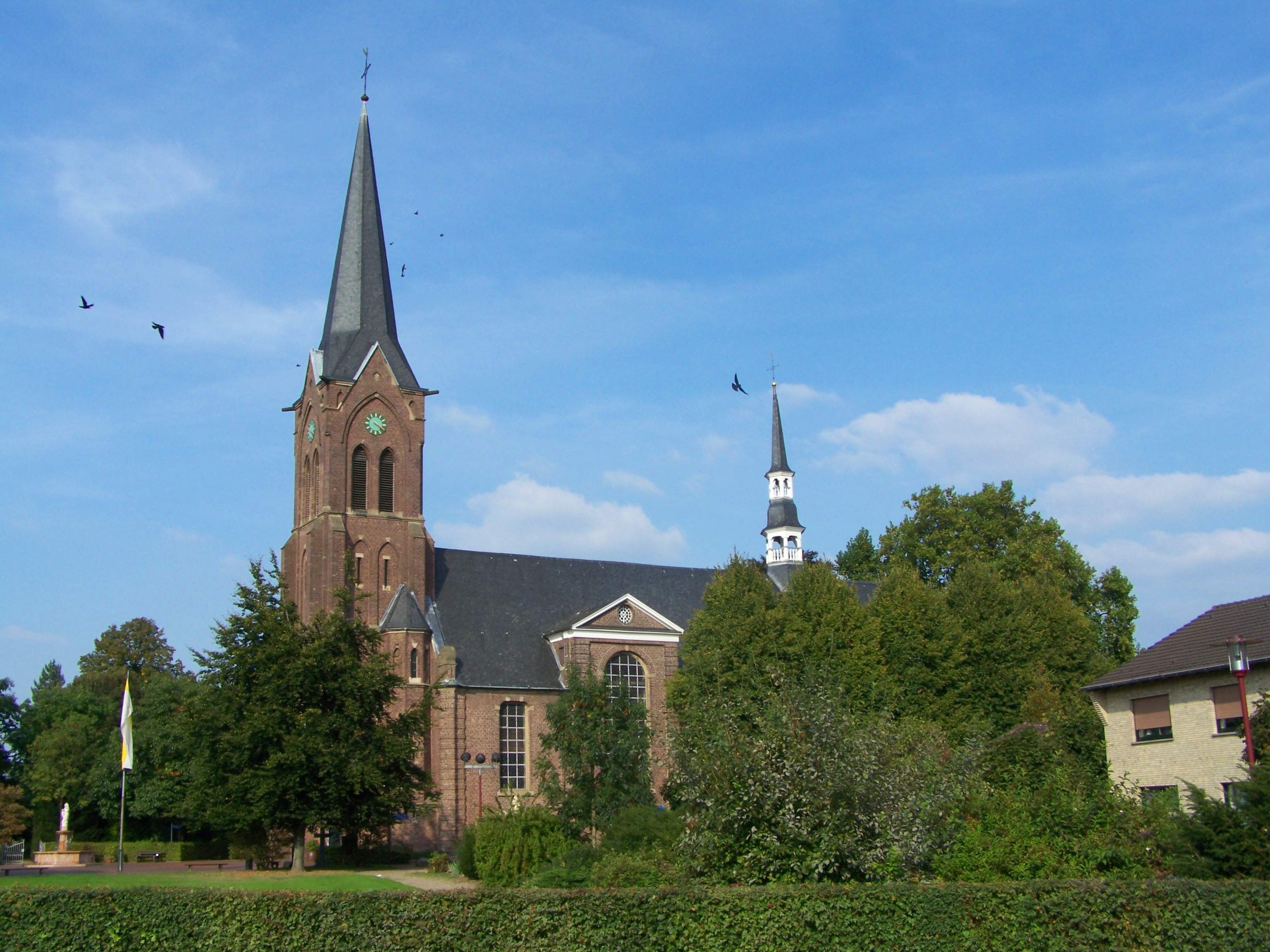 Sankt Mariä Himmelfahrt Xanten-Marienbaum/ Germany